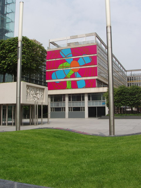 "The fan" mural, Triton Square, Euston This mural by Michael Craig-Martin fills the end of an office building, and is illuminated at night. For the artists's website . View from Euston Road.